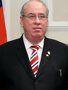 President Tsai meets with a delegation led by José Ayú Prado Canals, president of the Supreme Court of Panama. (2016/06/14)